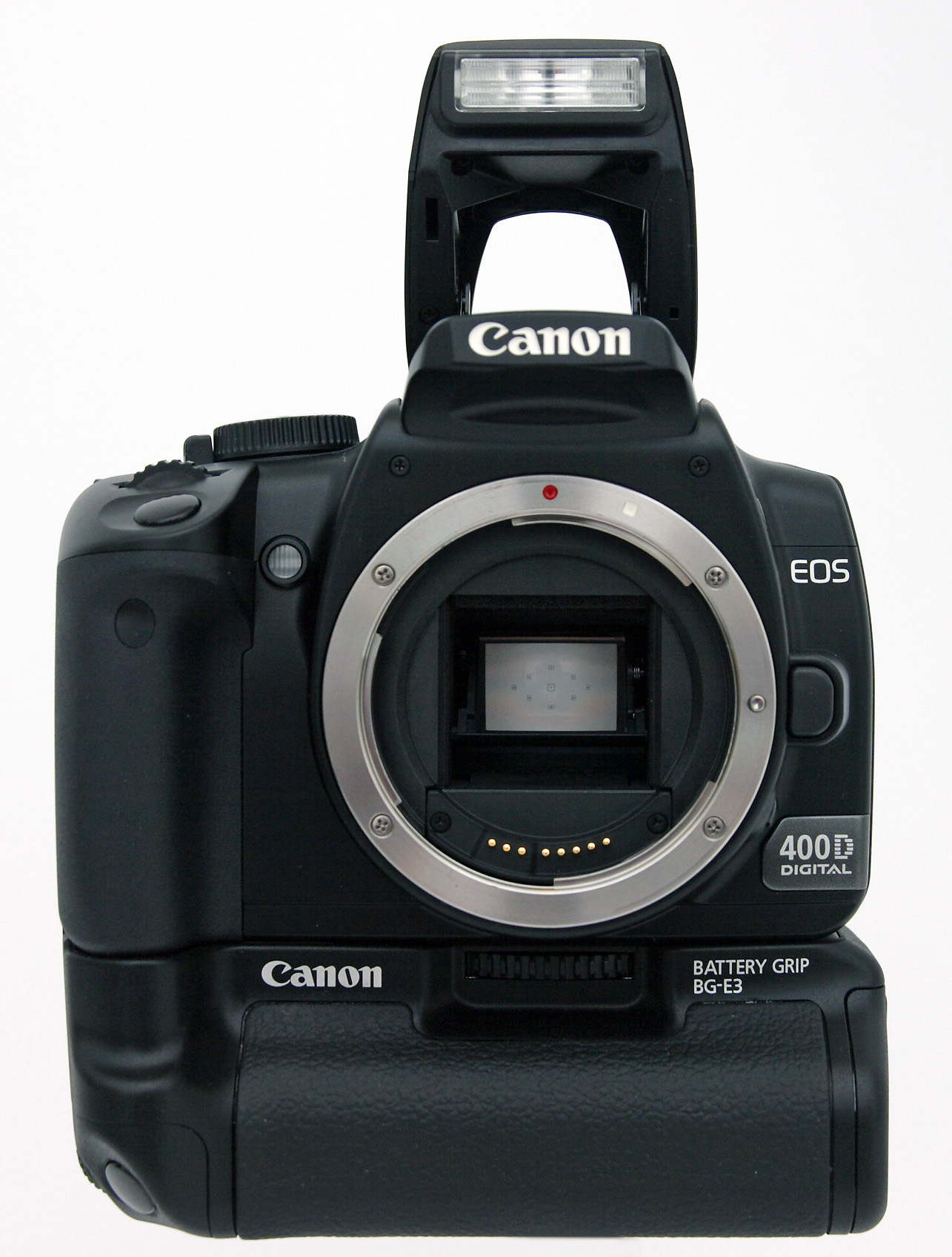 Canon EOS 400D with battery grip BG-E3